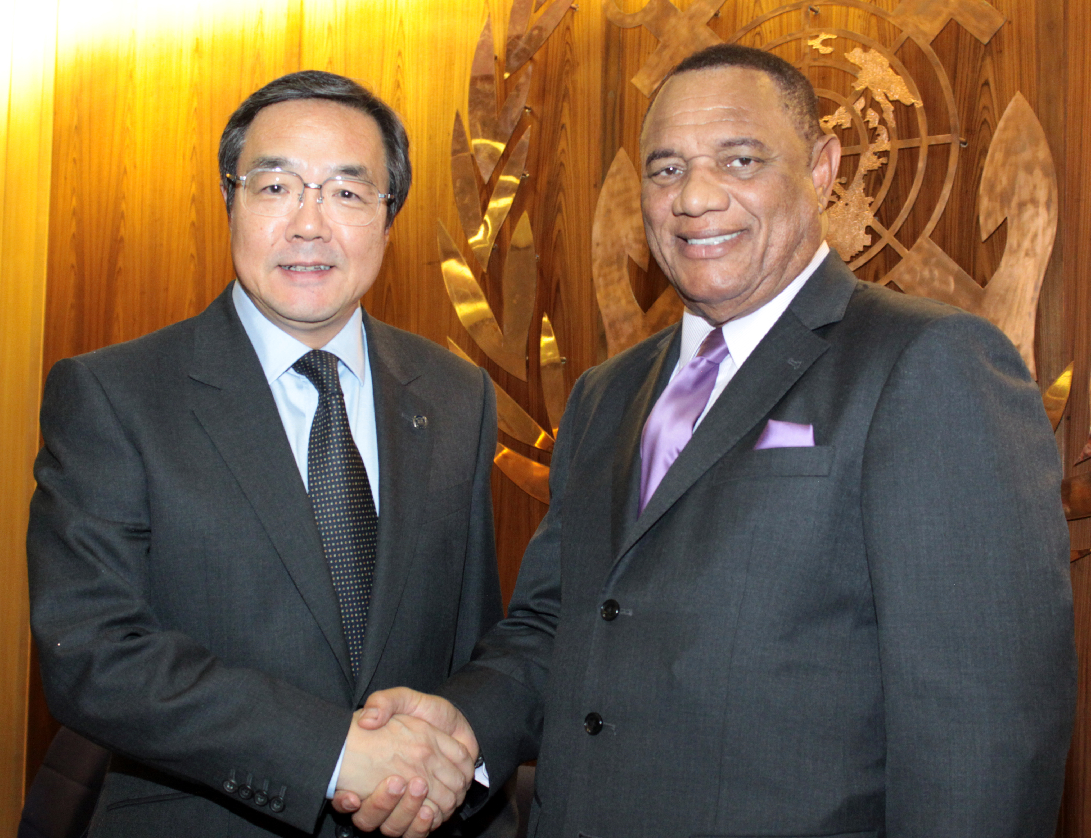 IMO Secretary-General with the Prime Minister of the Bahamas, the Right Honourable Perry Gladstone Christie. At the ceremony for Dr. Thomas Mensah's award of the International Maritime Prize for 2012, at IMO HQ, London, 21/11/2013.